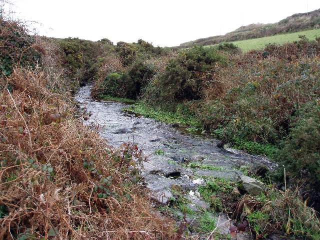 Stream at Lower Bostraze. Two streams join in the Tregeseal Valley, below this point. They then flow through Nancherrow and out to the sea at Porth Ledden, through the Kenidjack valley SW3632. In the 19th century the water from these streams powered the machinery for the mining lower down the valley. Plenty of water today, after several weeks of rain saturating the peaty commonland above. This photograph was taken just to the west of the old China Clay works at Lower Bostraze.